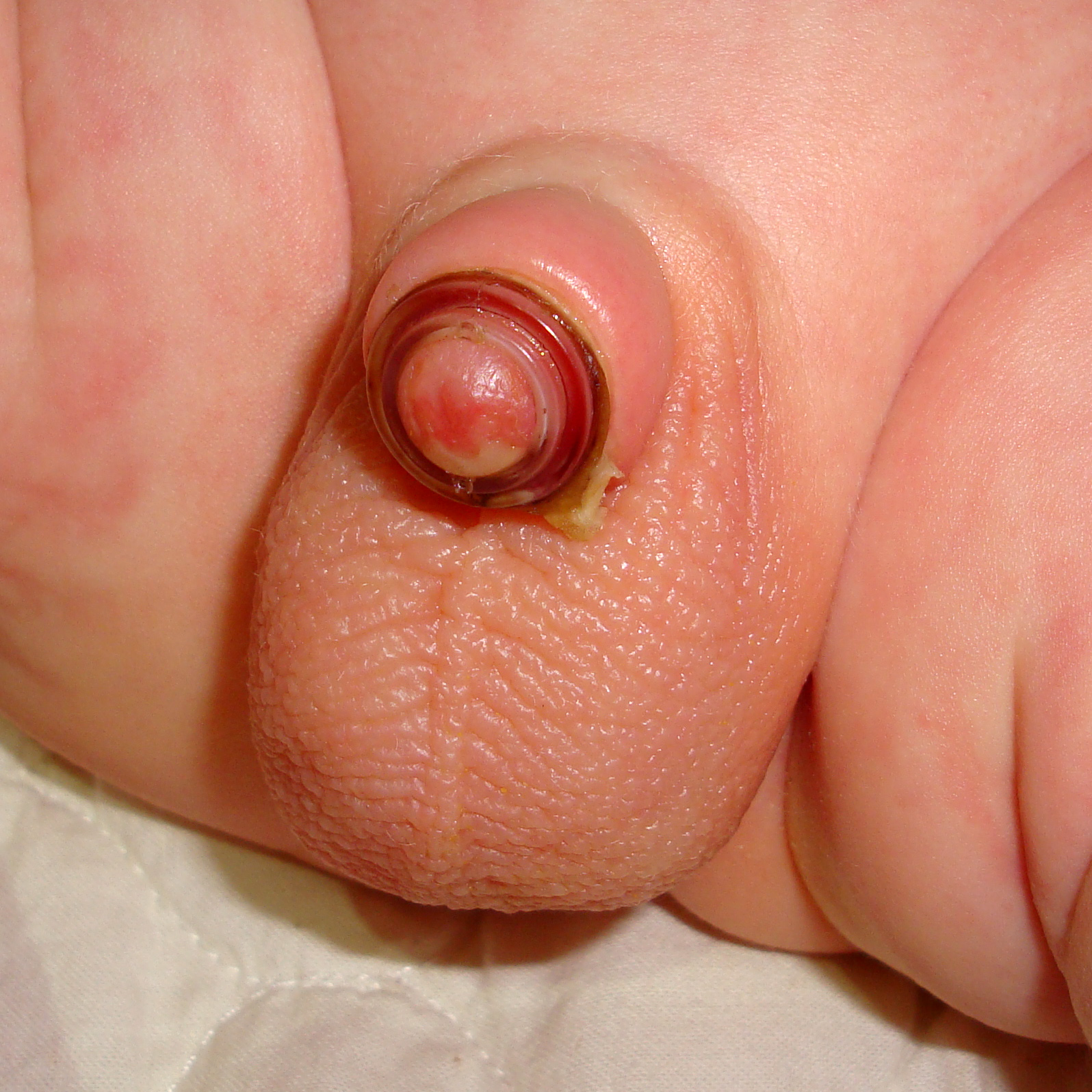 A picture of a Plastibell Circumcision Device on a one month old infant. The Plastibell device had been on the infant for 6 days when this photograph was taken. You can see the ligature knot on the lower right hand side of the Plastibell device.